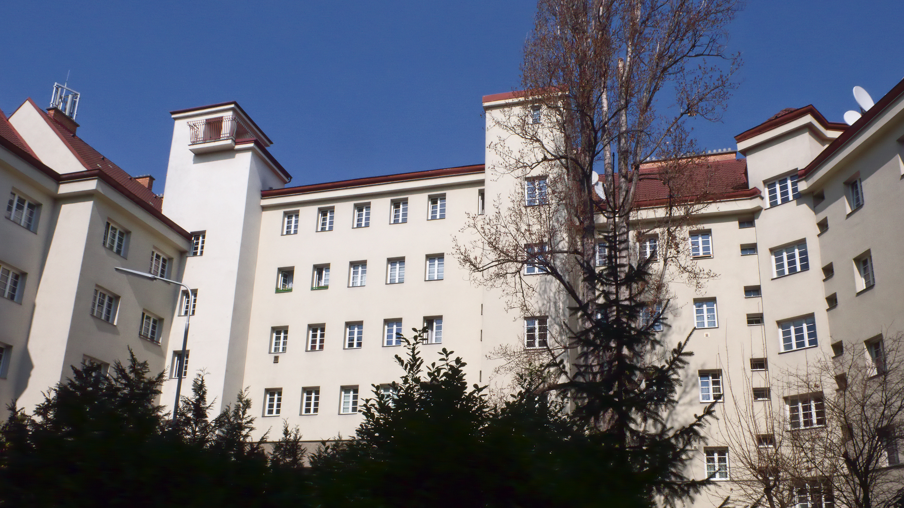 Residential building Professor-Jodl-Hof in Vienna Döbling